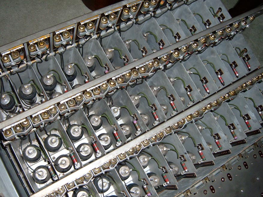 Inside the Hammond Novachord Section of the VCA/Divider pair tube array